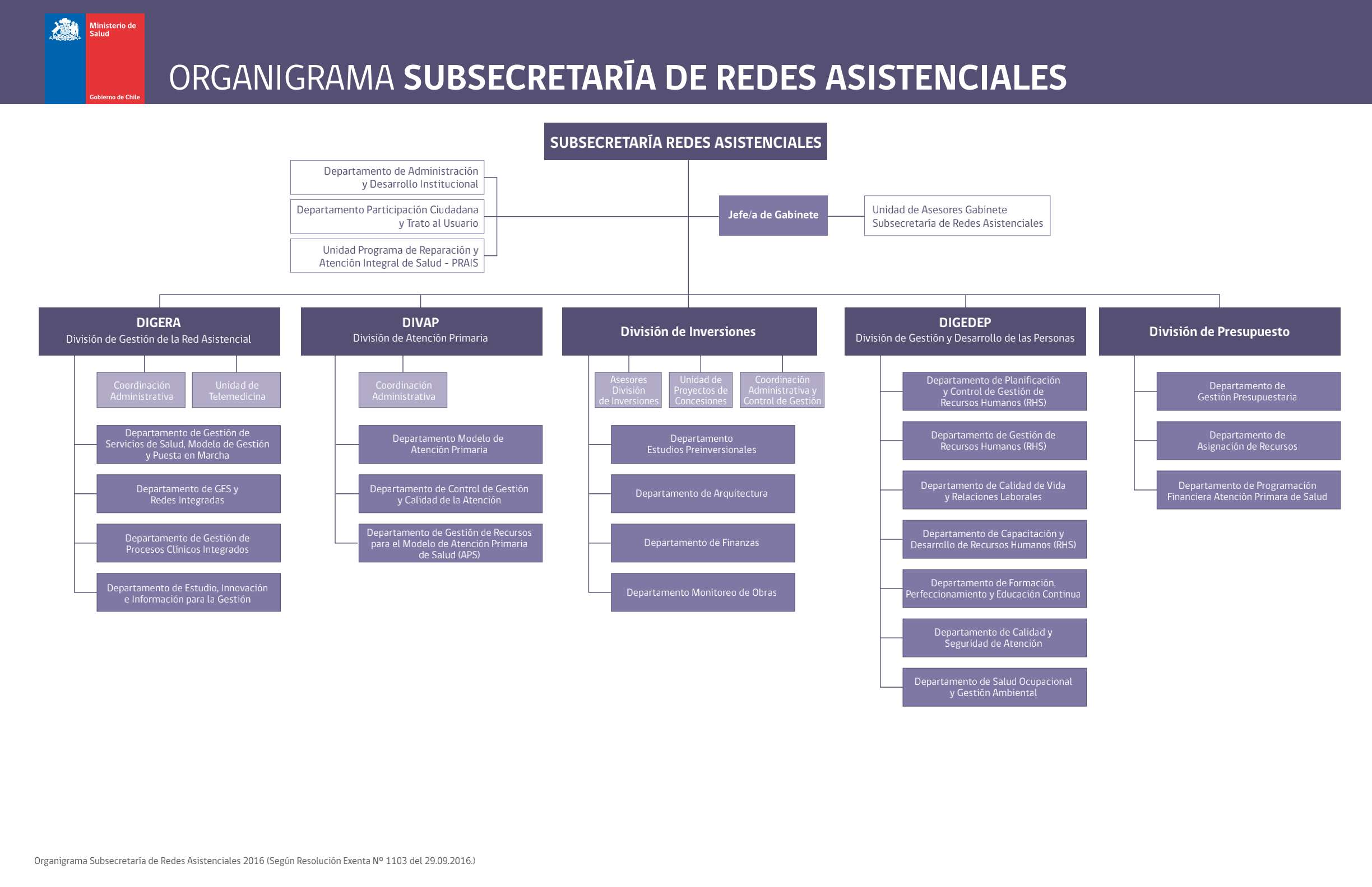 Official organization chart of the Undersecretariat of Assistance Networks in Minsal by September 2016